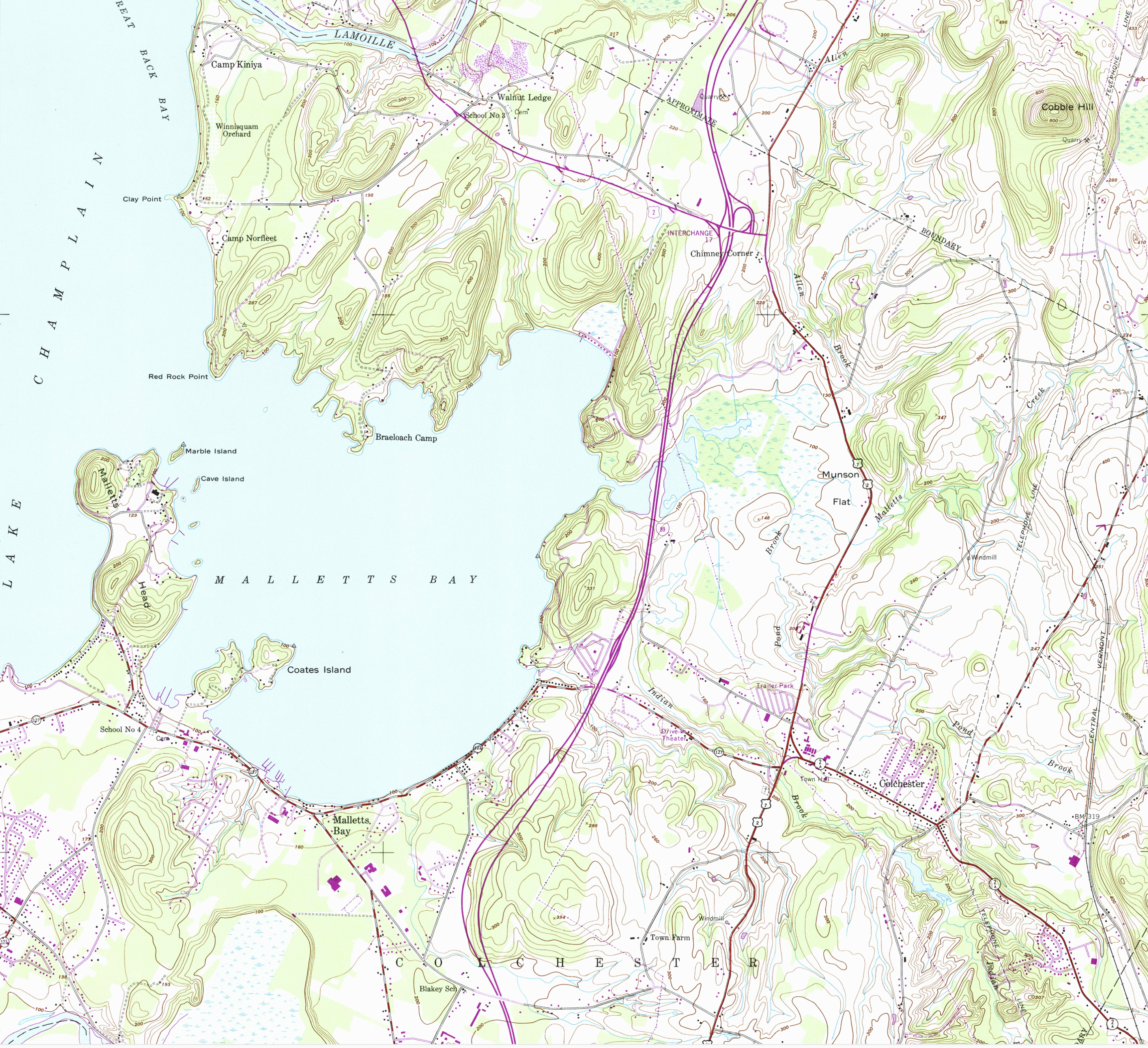 Topographical map of Colchester, Vermont (partial). From US Geological Survey, Colchester Vermont quadrangle, 1987